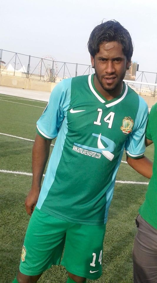 A photo of Amjad Kalaf after a friendly match against Al-Samawa on 26 April 2014 while playing for Al-Shorta, cropped to only include Amjad